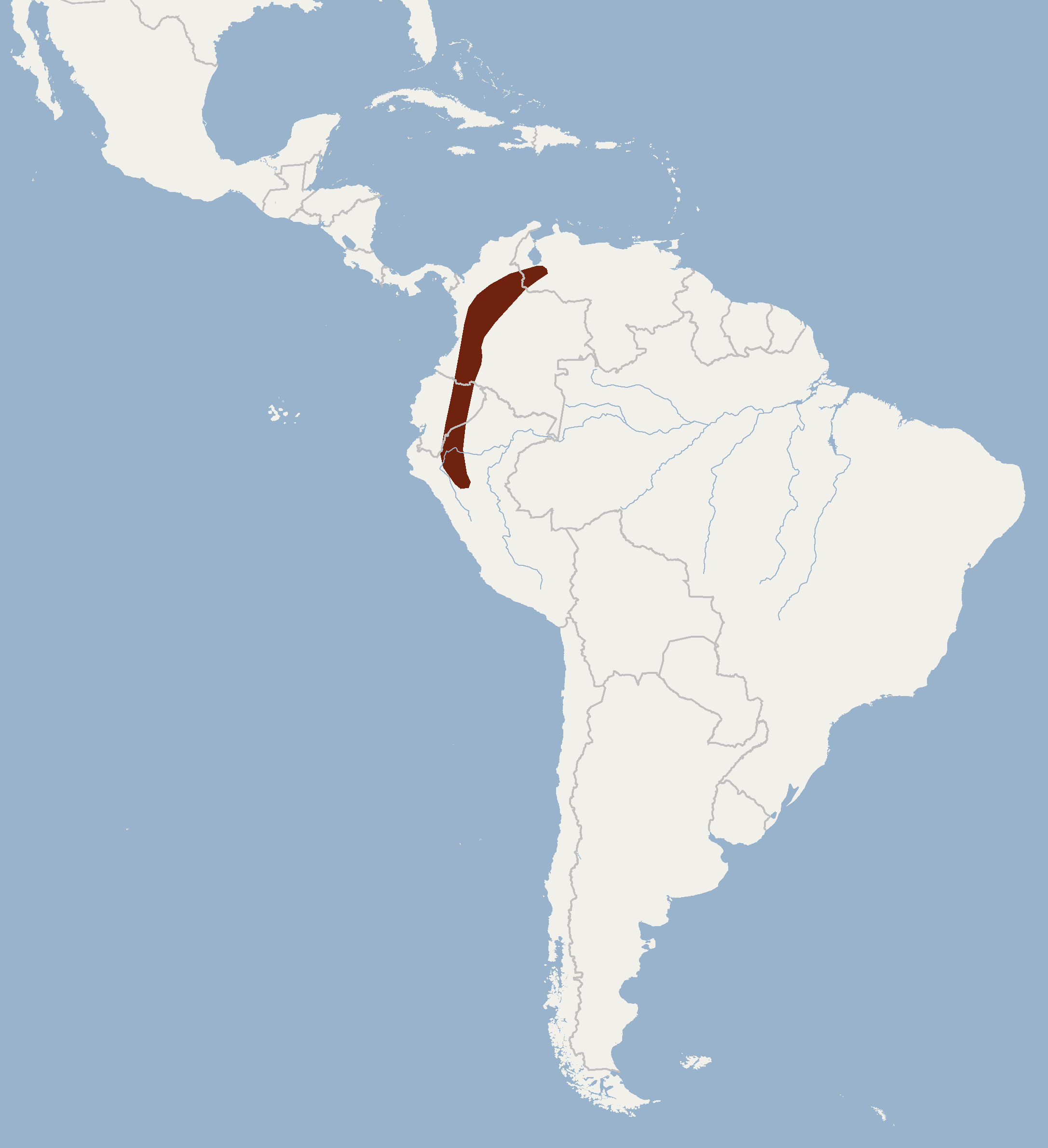 According to Gardner, 2008